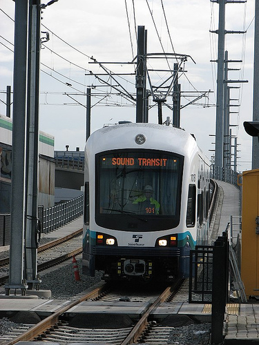 I took this image from Flickr. URL